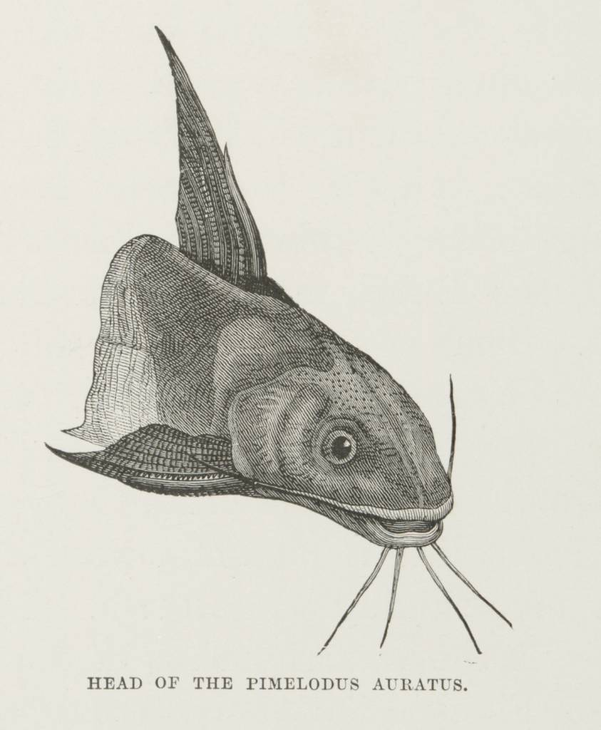 The head of a pimelodus auratus (Valid as Chrysichthys auratus), a fish of the Nile.